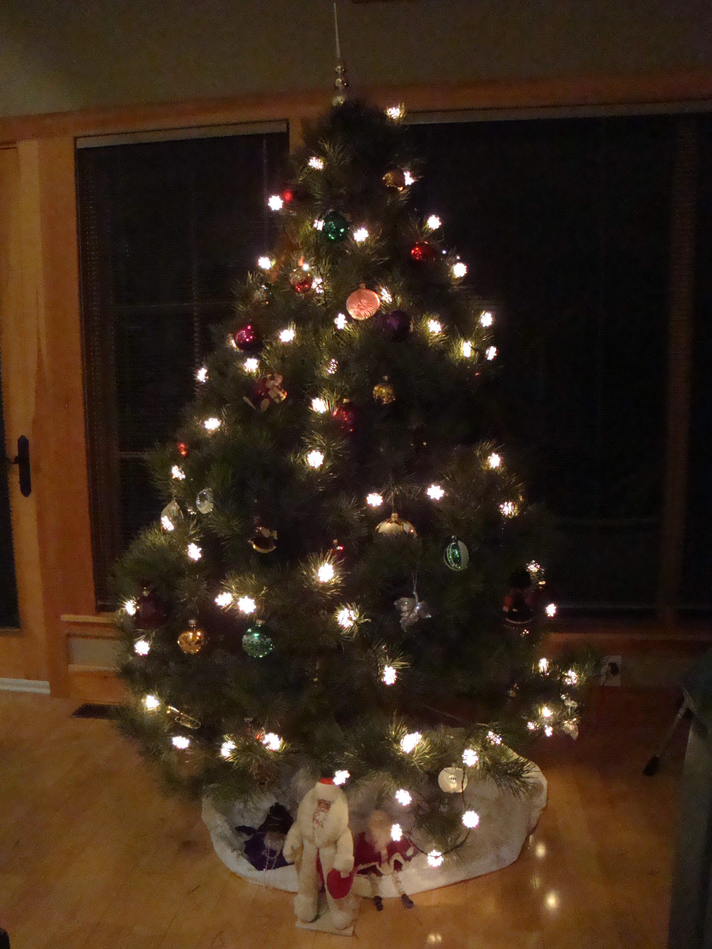 New Year tree